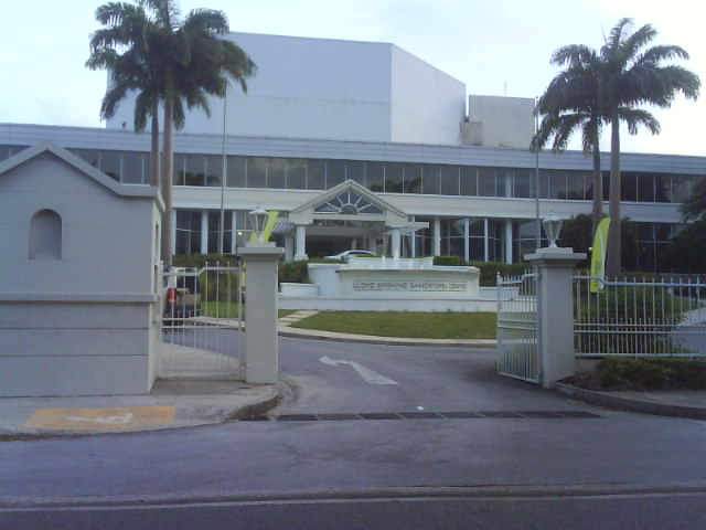 Dusk at The Lloyd Erskine Sandiford Conference And Cultural Centre (or less formally, Lloyd Erskine Sandiford Centre), in Two Mile Hill, St. Michael, Barbados.